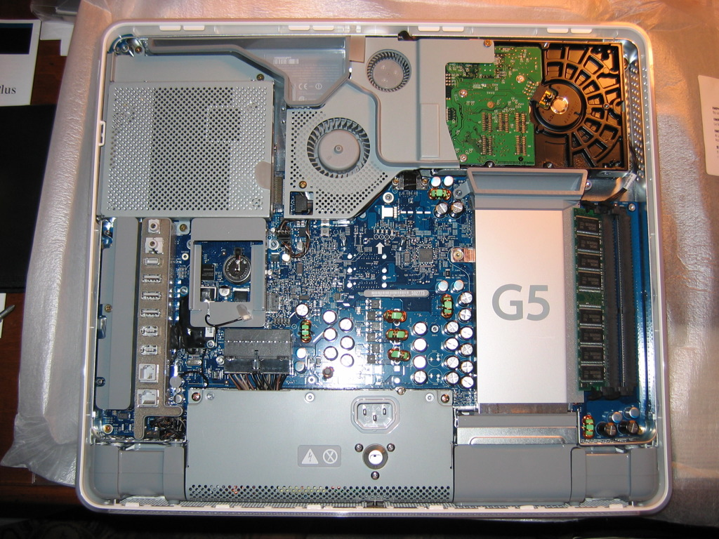 Inside a 17" Apple G5 iMac